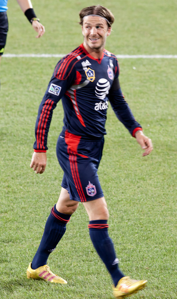 David Beckham at the Manchester United vs MLS All Stars in 2011.